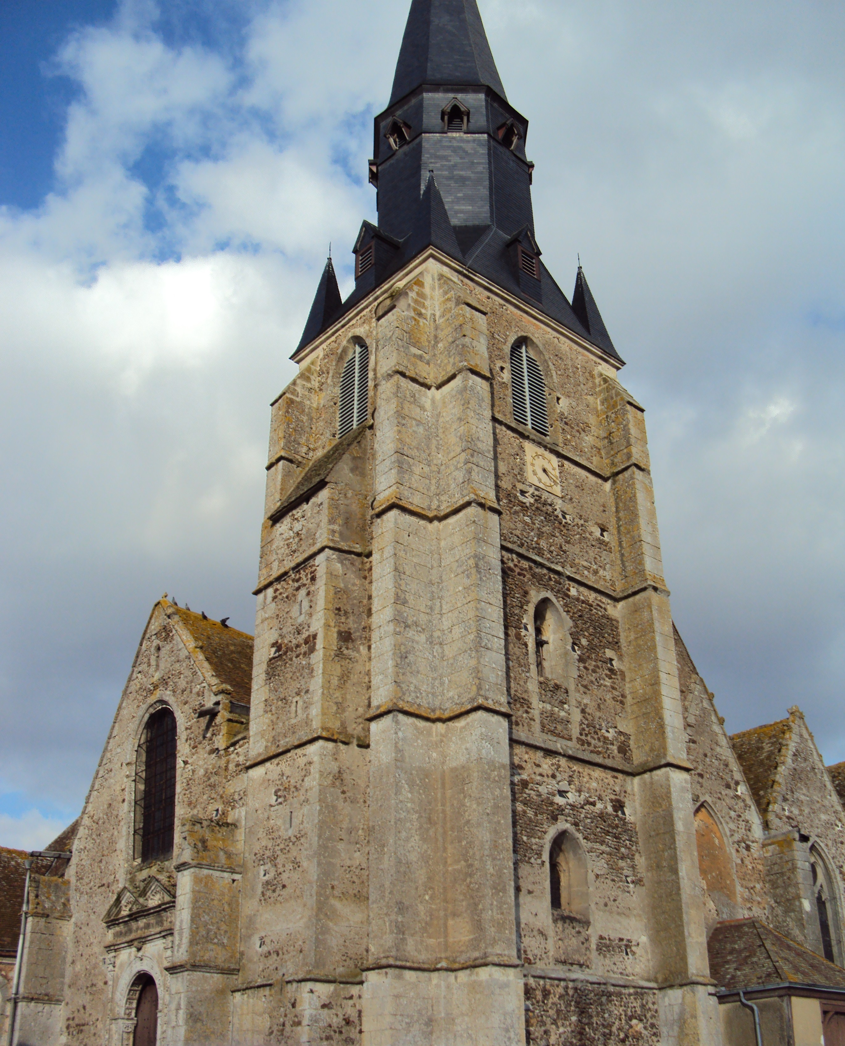 The church of Yèvres in Eure-et-Loir.